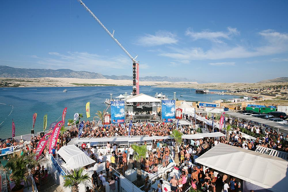 Papaya club @ Zrche beach day